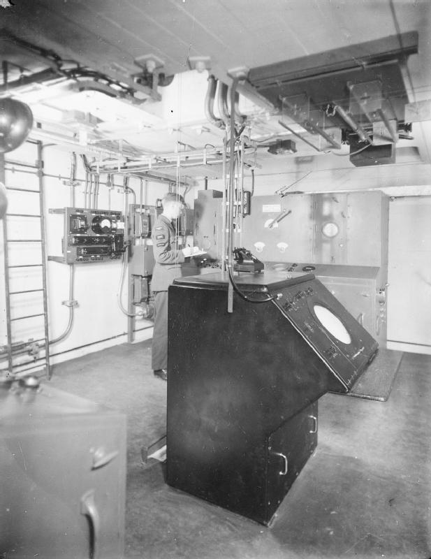 Royal Air Force Radar, 1939-1945 Ground Control of Interception: AMES Final Type 7 GCI Fixed radar installation at RAF Sopley, Hampshire. Interior view of the Radar Well, showing the the monitor receiver in the foreground and the transmitter behind it.